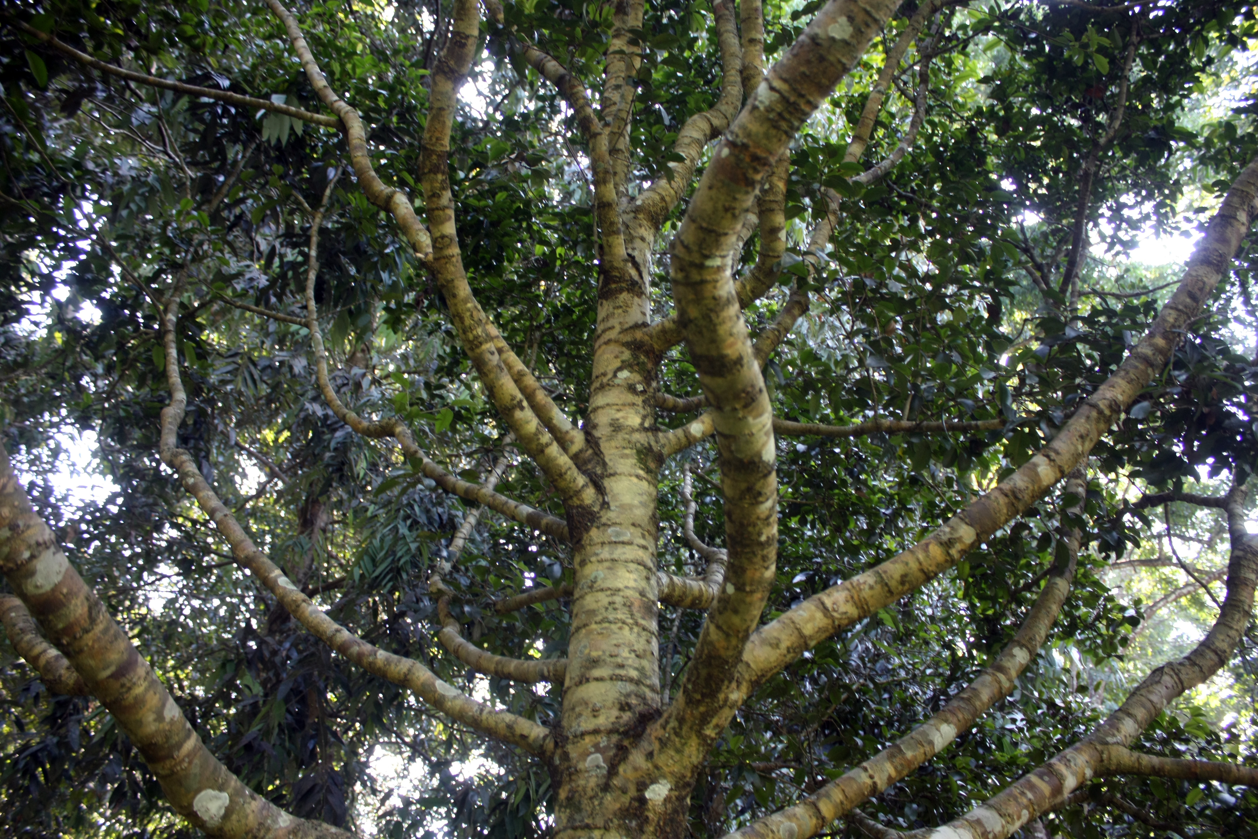 Calophyllum calaba in Botanical Garden of Peradeniya